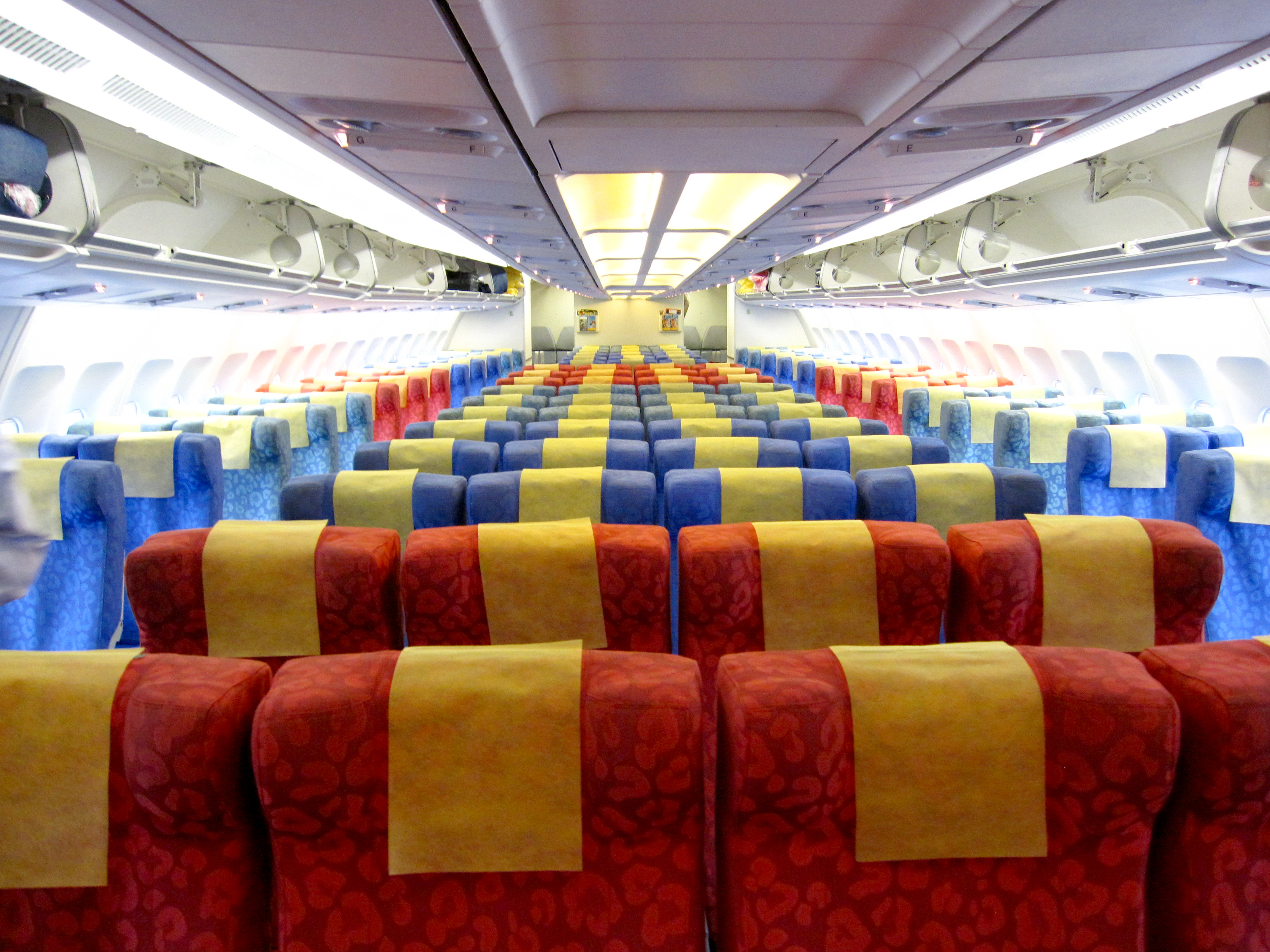 Dragonair Airbus A330-300 economy class cabin, flight HKG-PEK in March 2010.